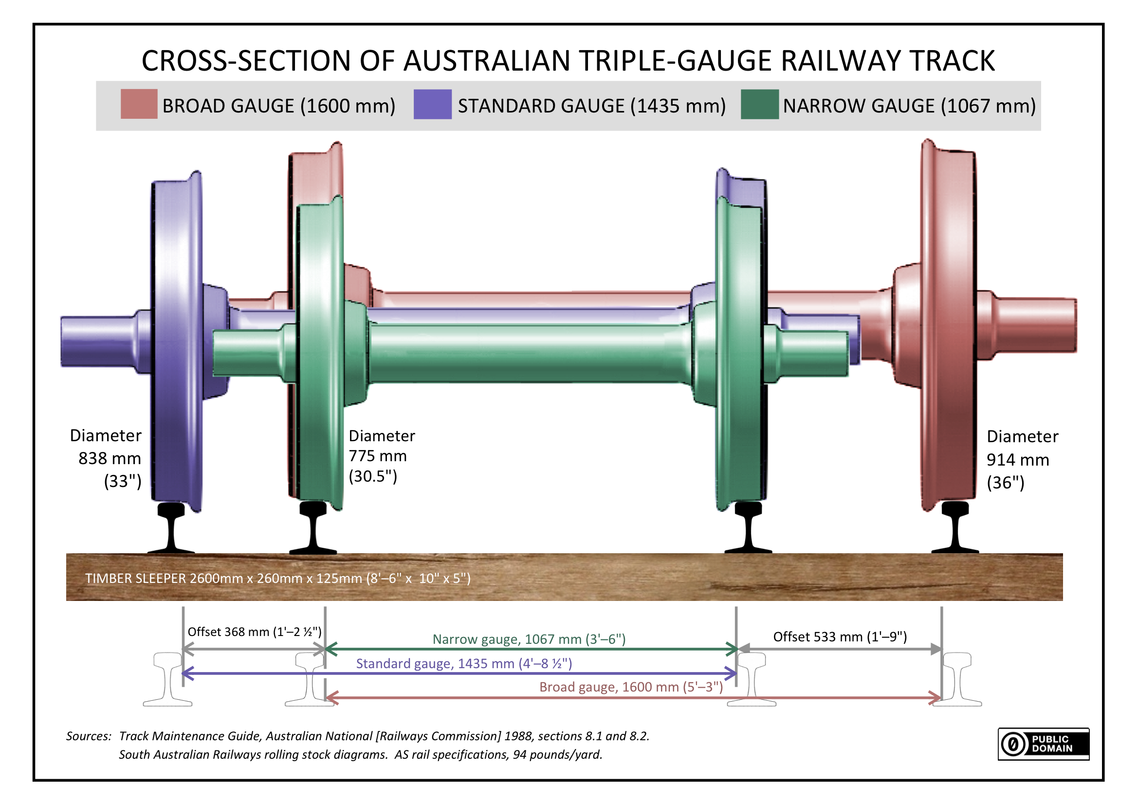 Diagram of the cross-section of track built to three gauges in Gladstone and Peterborough, South Australia, before gauge standardisation was achieved in 1970.